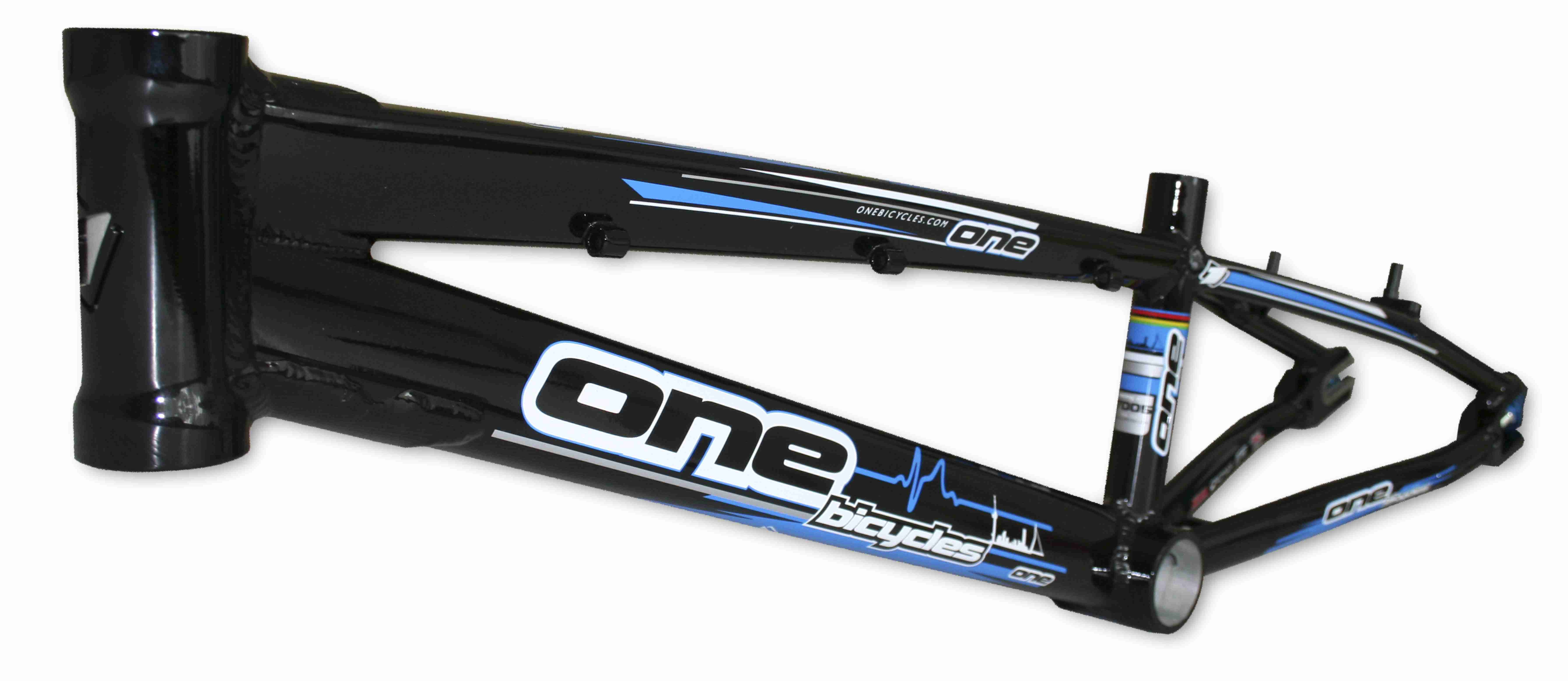 ONE Bicycles' tribute to the UCI Worlds - features skyline of Rotterdam where the 2014 Worlds were held.